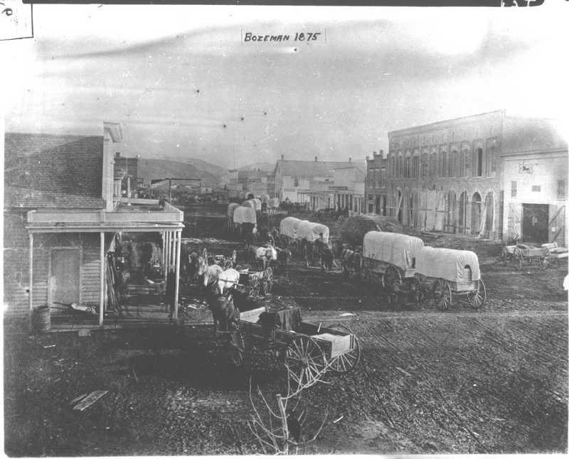 Titled: "Bozeman Main Street, 1875" but the caption is incorrect.